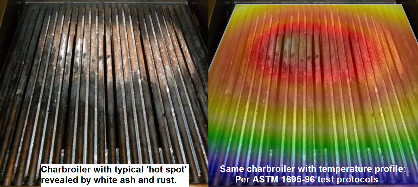 charbroiler-hot spot temp profile